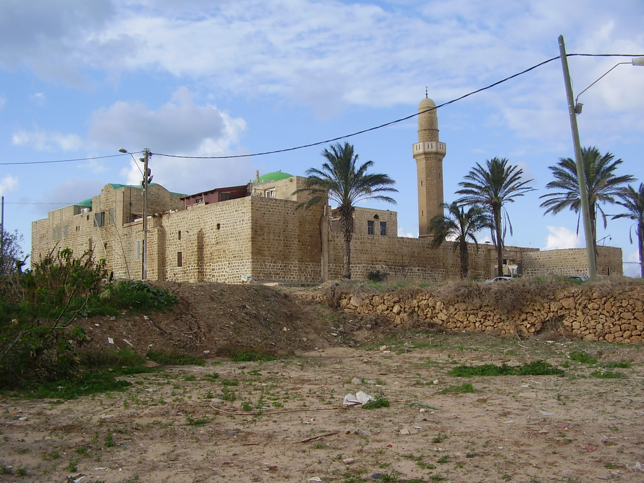 sidna ali mosque in herzliya